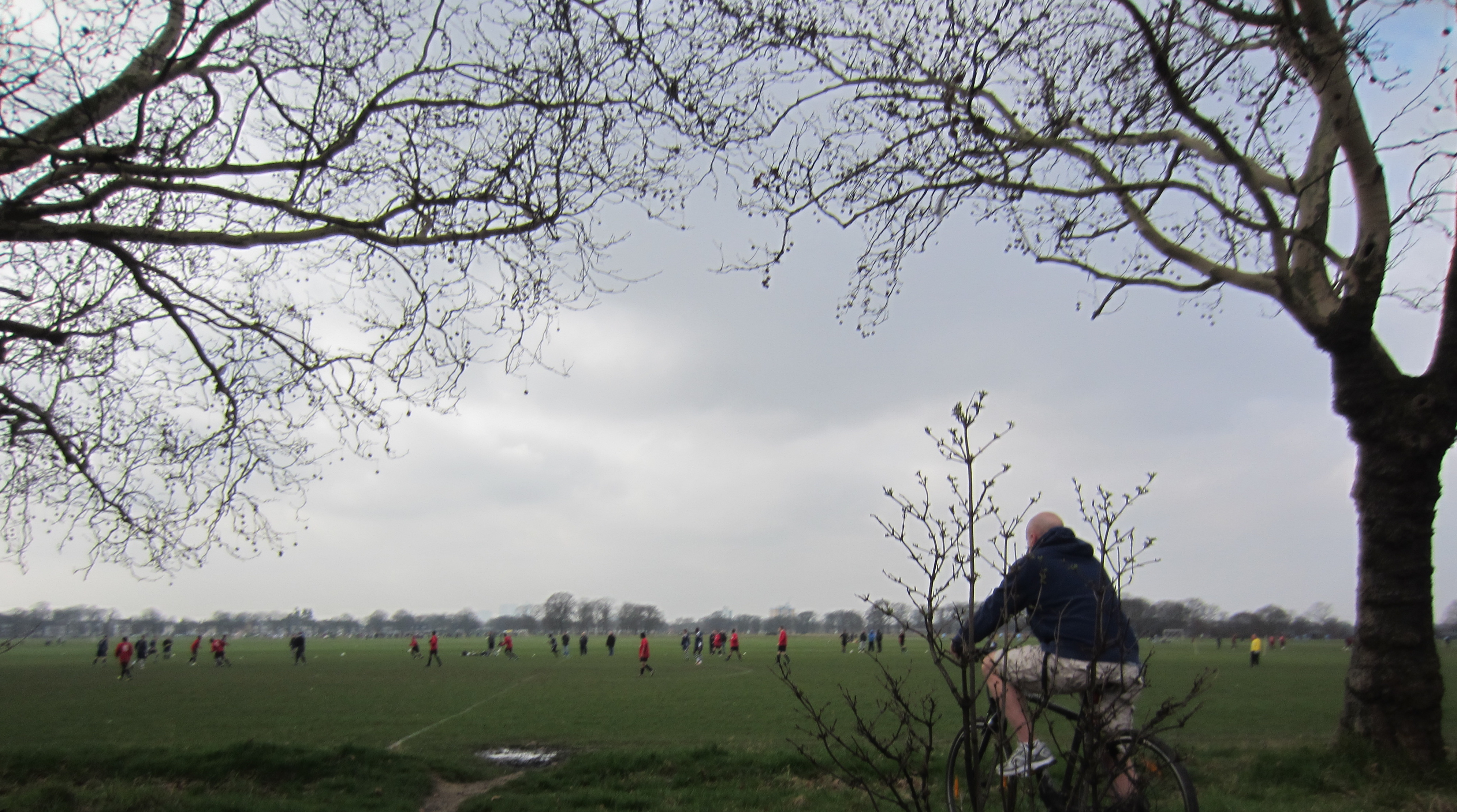 Wanstead Flats Leisure